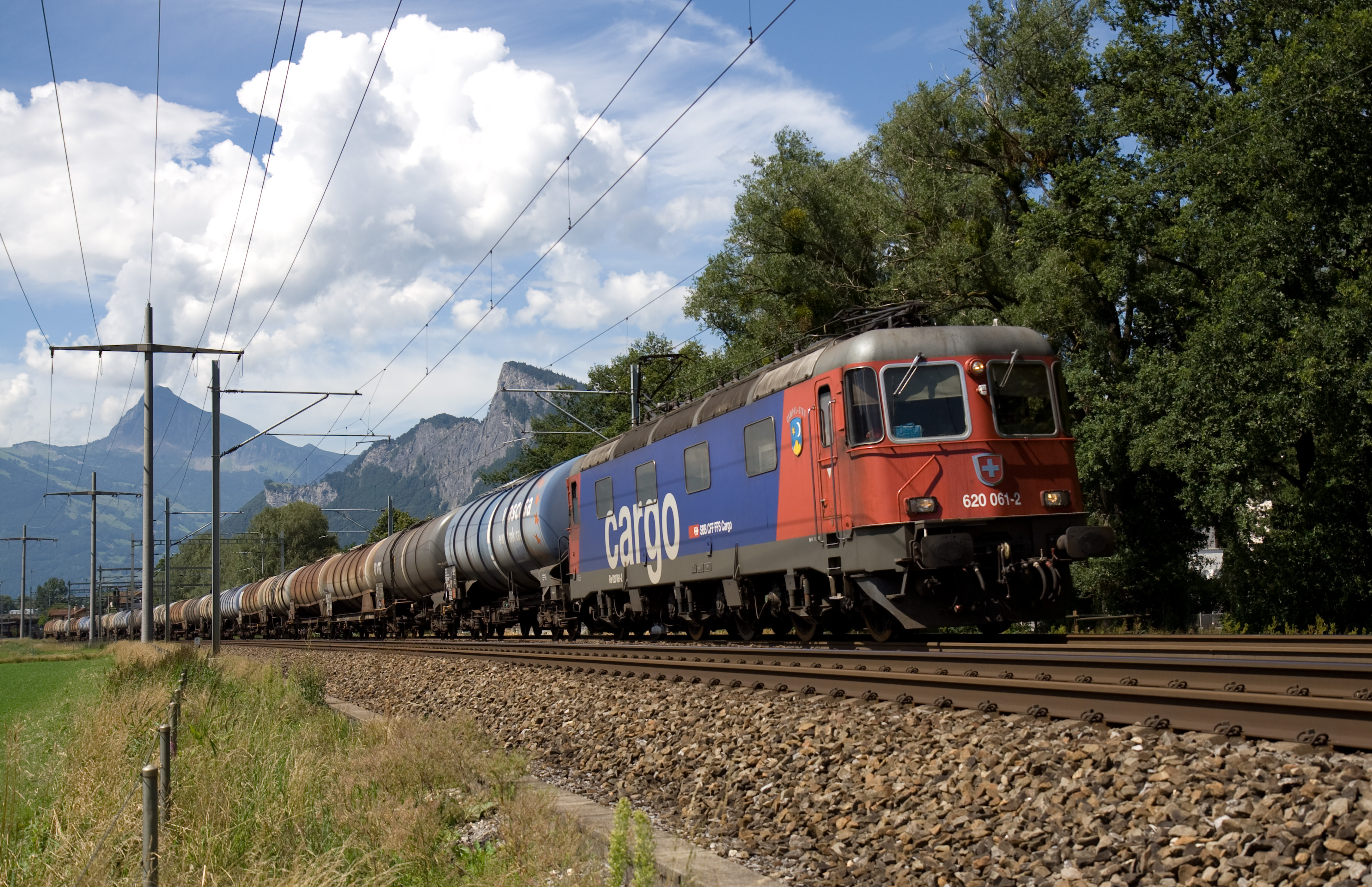 Re 6/6 locomotive with an oil train on its way to Landquart